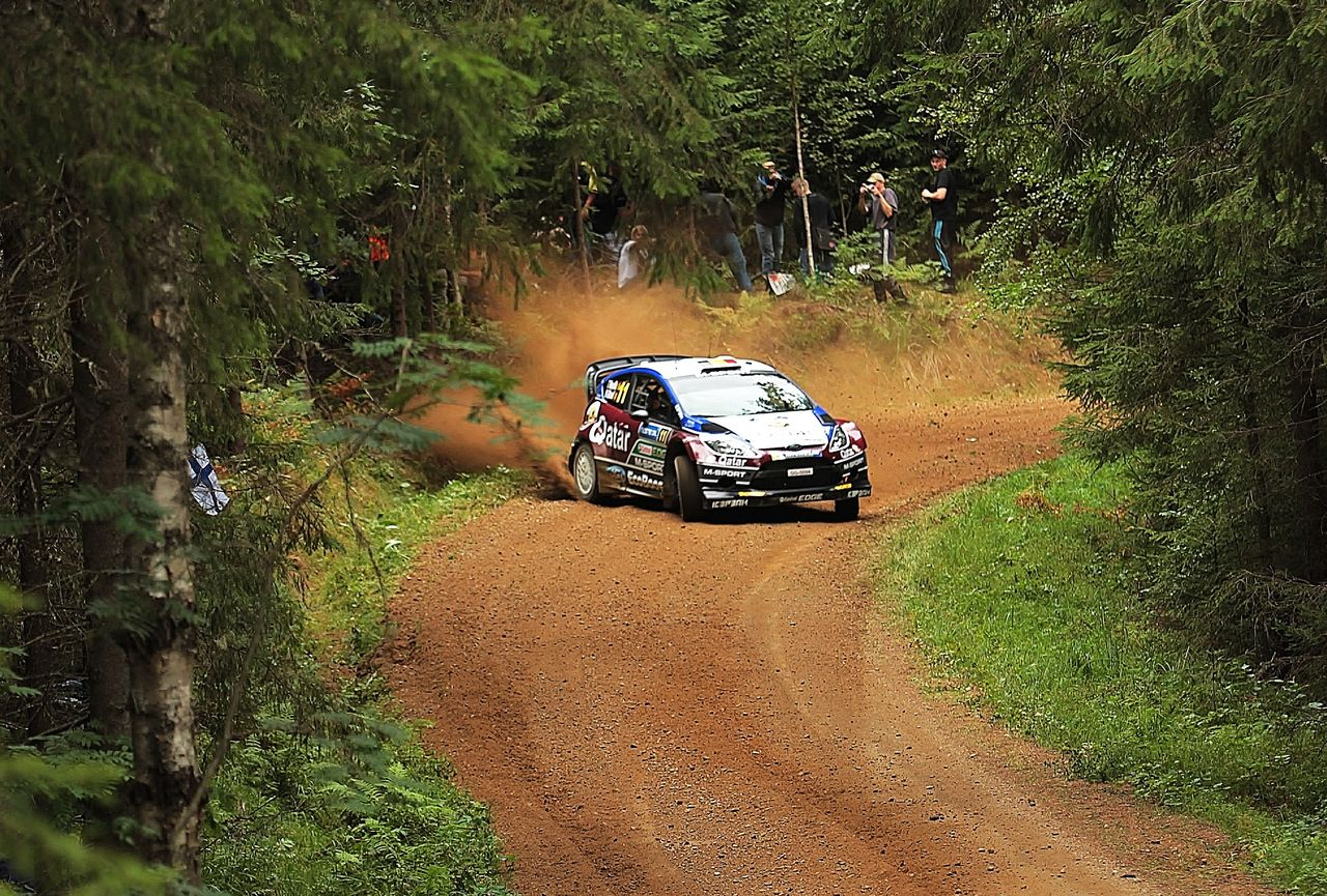 Thierry Neuville at Torittu stage at 2013 Rally Finland